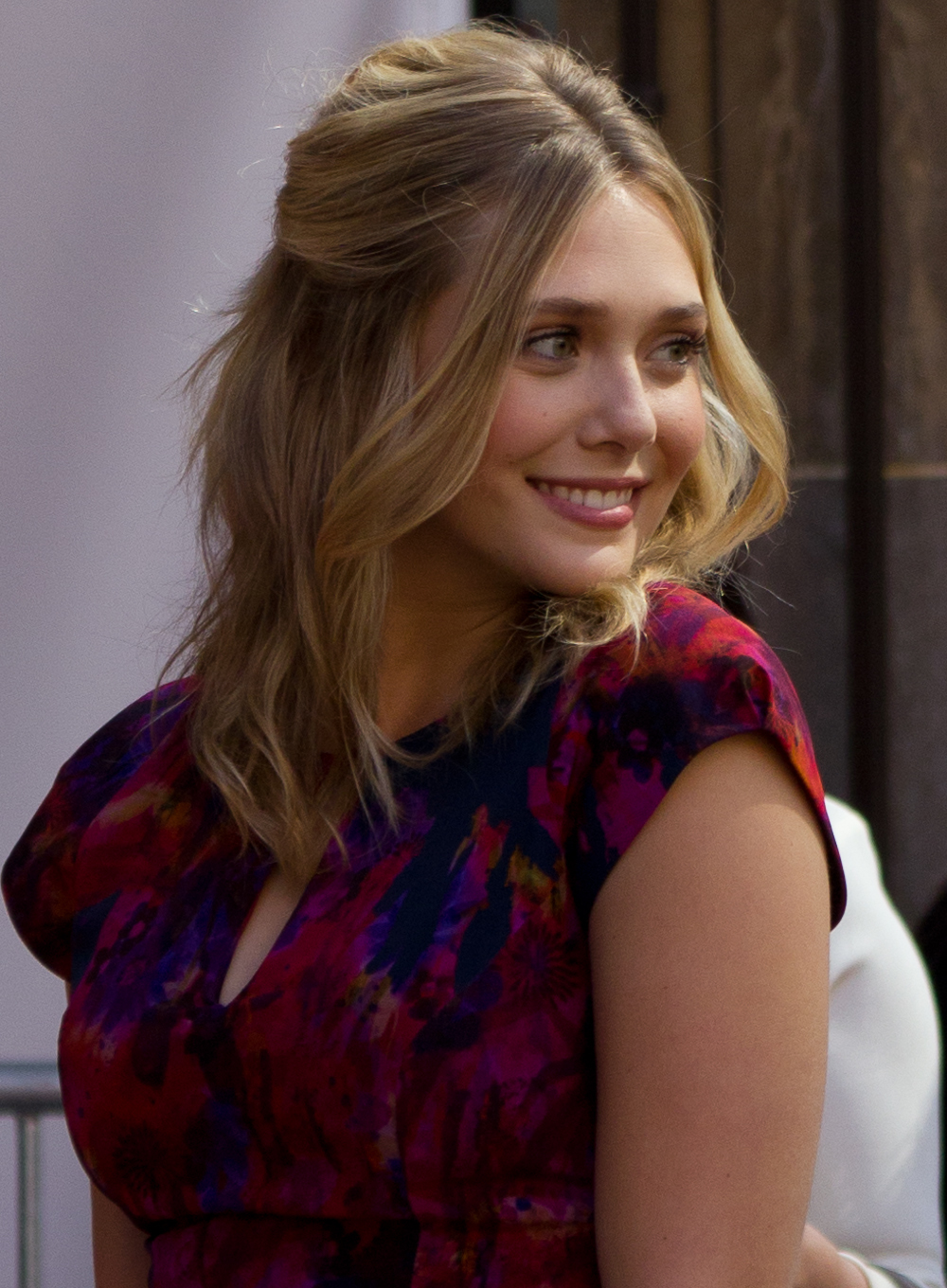 Elizabeth Olsen arriving at the "Martha Marcy May Marlene" premiere.